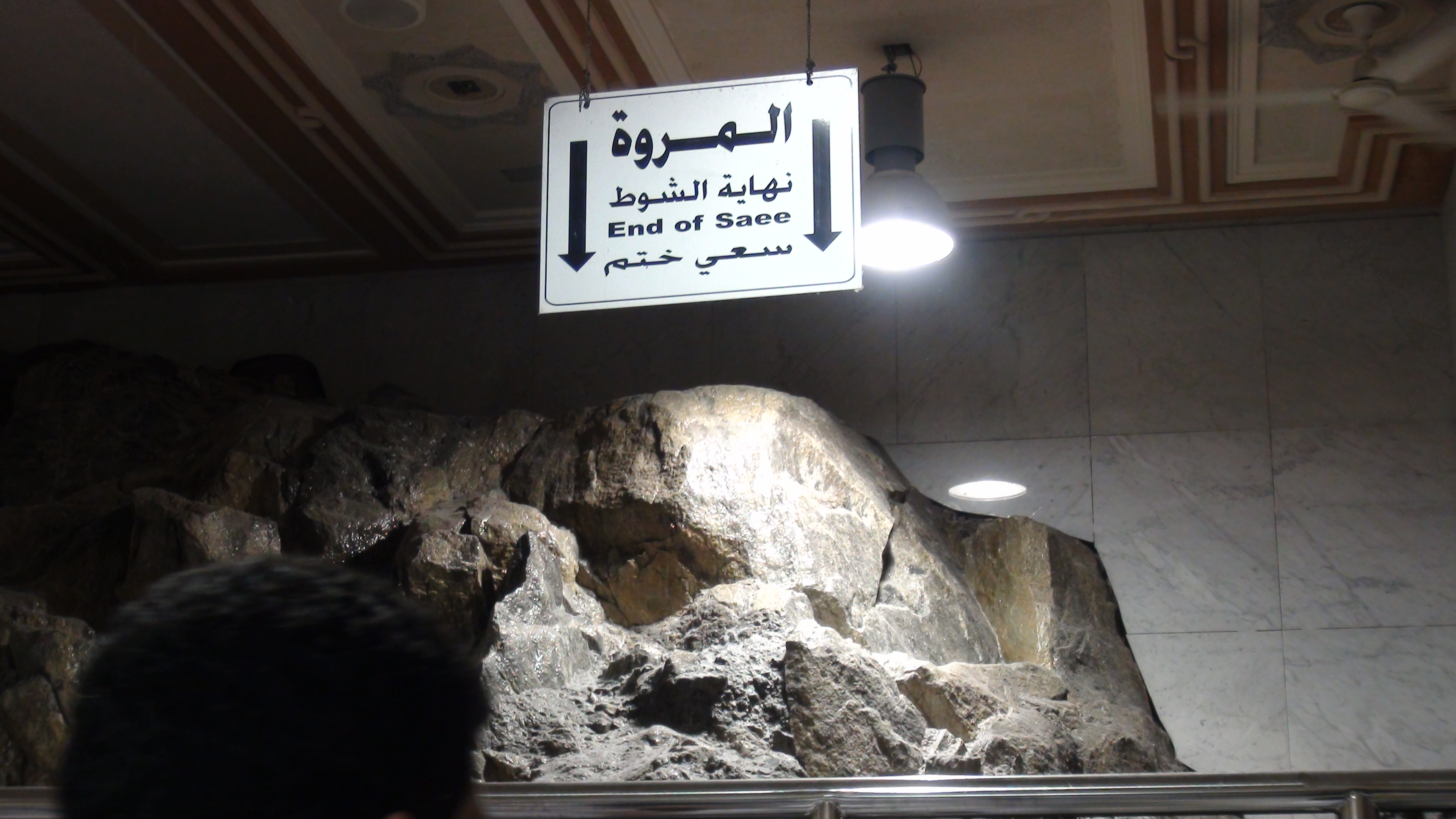 Panel guidance on Mount Al-Marwah exists inside the Grand Mosque in Mecca, It endins AL-Sa'yee